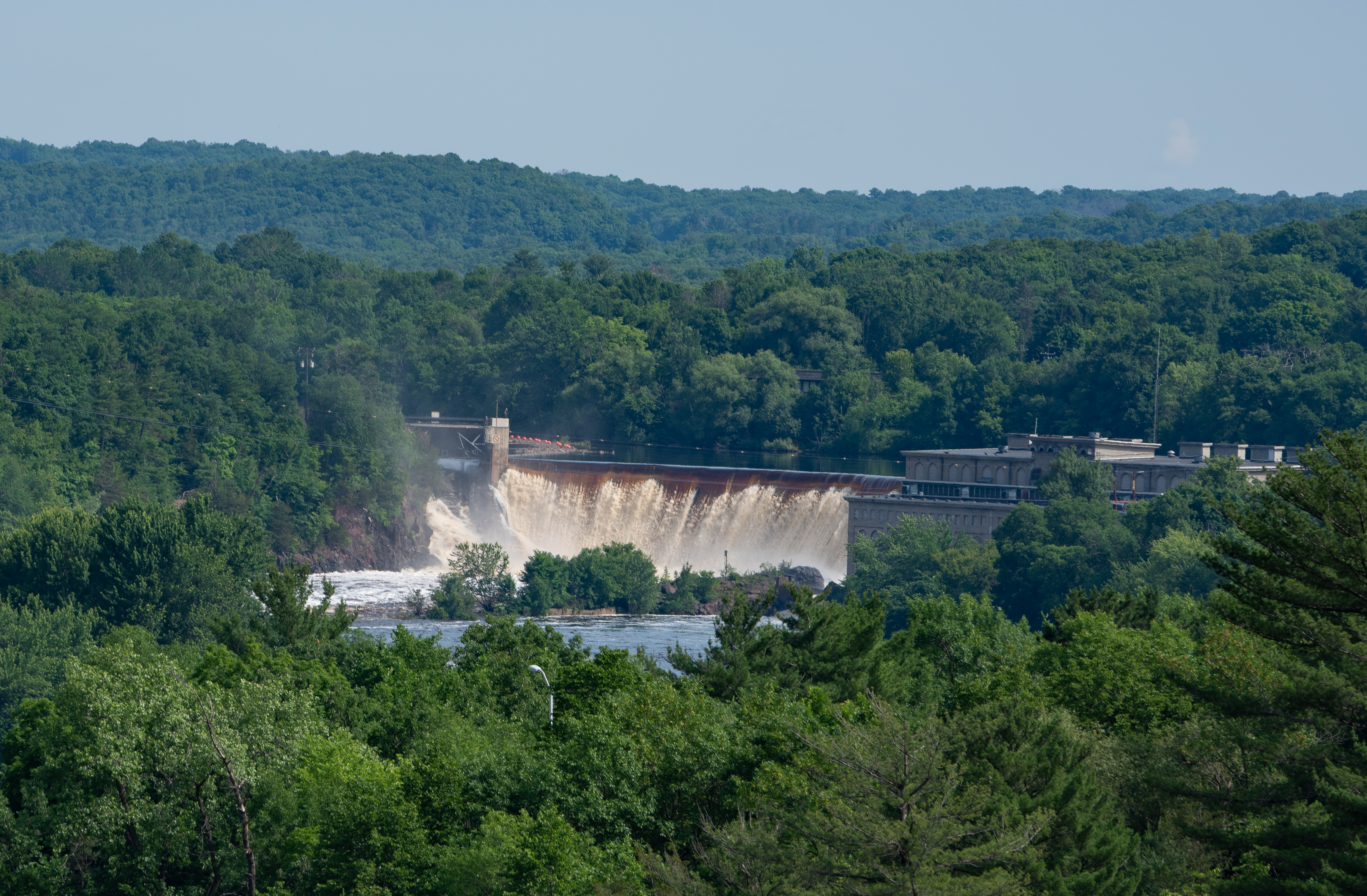 The St. Croix Falls Hydro Generating Station, a dam on the Saint Croix River operated by Xcel Energy, as seen from a hiking trail viewpoint at Wisconsin Interstate State Park. Minnesota is on the left, and Wisconsin on the right.